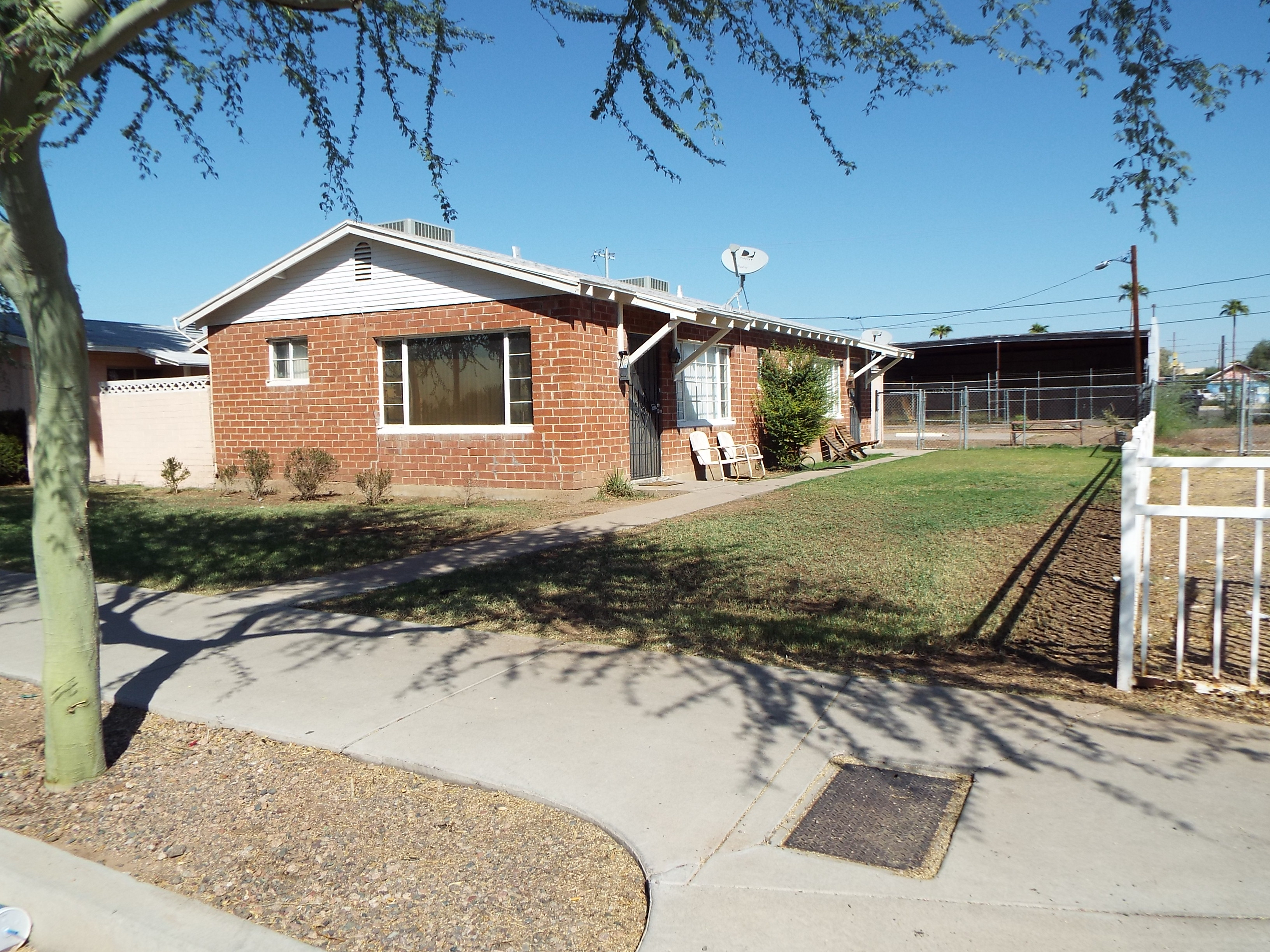 The Lincoln and Eleanor House at 1510 E. Jefferson in Phoenix. They were both influential civil rights leaders in Phoenix.